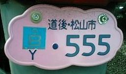 Japanese license plate for motorcycles (over 250cm³). The plate size is smaller than an ordinary vehicle plate. This license plate is registered to Matsuyama, Ehime. 2009 cloud-shaped Matsuyama motorcycle license plate